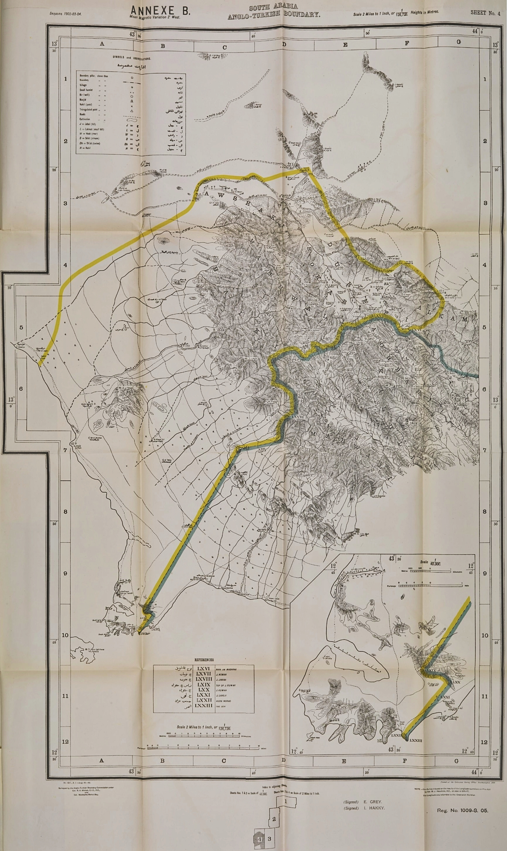 Map issued as an annex to the Anglo-Turkish Convention of 3 June 1914. This map of the southwestern tip of the Arabian Peninsula shows the demarcation line agreed upon between 1902 and 1904 by the Anglo-Turkish Boundary Commission which had been tasked to demarcate the respective Ottoman and British spheres of influence in South Arabia. This is one of four maps showing the whole length of the demarcation line drawn by the Commission. The area bordered in yellow, approximately 550 sq. miles, was the area of Yemen that the Turkish government committed not to alienate in any way to a foreign power. Britain was concerned that France, Italy or Germany might attempt to acquire this strategic area facing the British island of Perim at the entrance of the Red Sea. Cape Bab el-Mandeb was also known as Sheikh Said, and is generally known today as Ras Menheli.